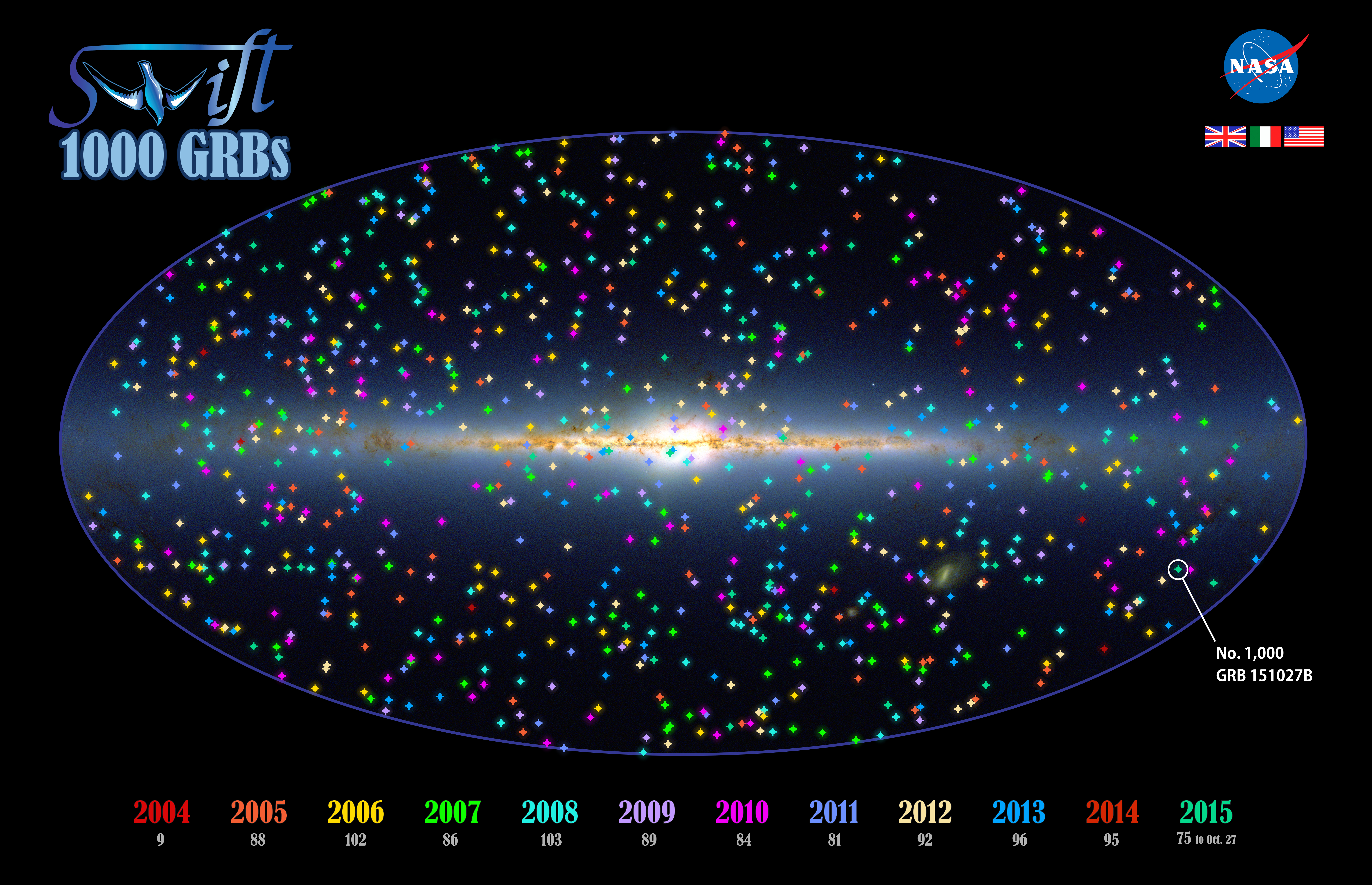 This illustration shows the positions of 1,000 Swift GRBs on an all-sky map oriented so that the plane of our galaxy, the Milky Way, runs across the center. Bursts are color coded by year, and the location of GRB 151027B is shown at lower right. An annual tally of the number of bursts Swift has detected appears below the label for each year. Background: An infrared view from the Two Micron All-Sky Survey.